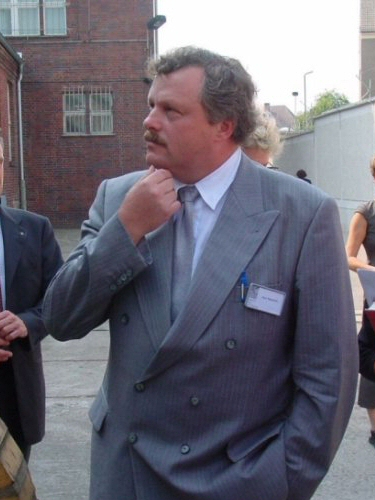 Siegfried Reiprich when Johannes Rau was visiting the Berlin-Hohenschönhausen Memorial in august 2002